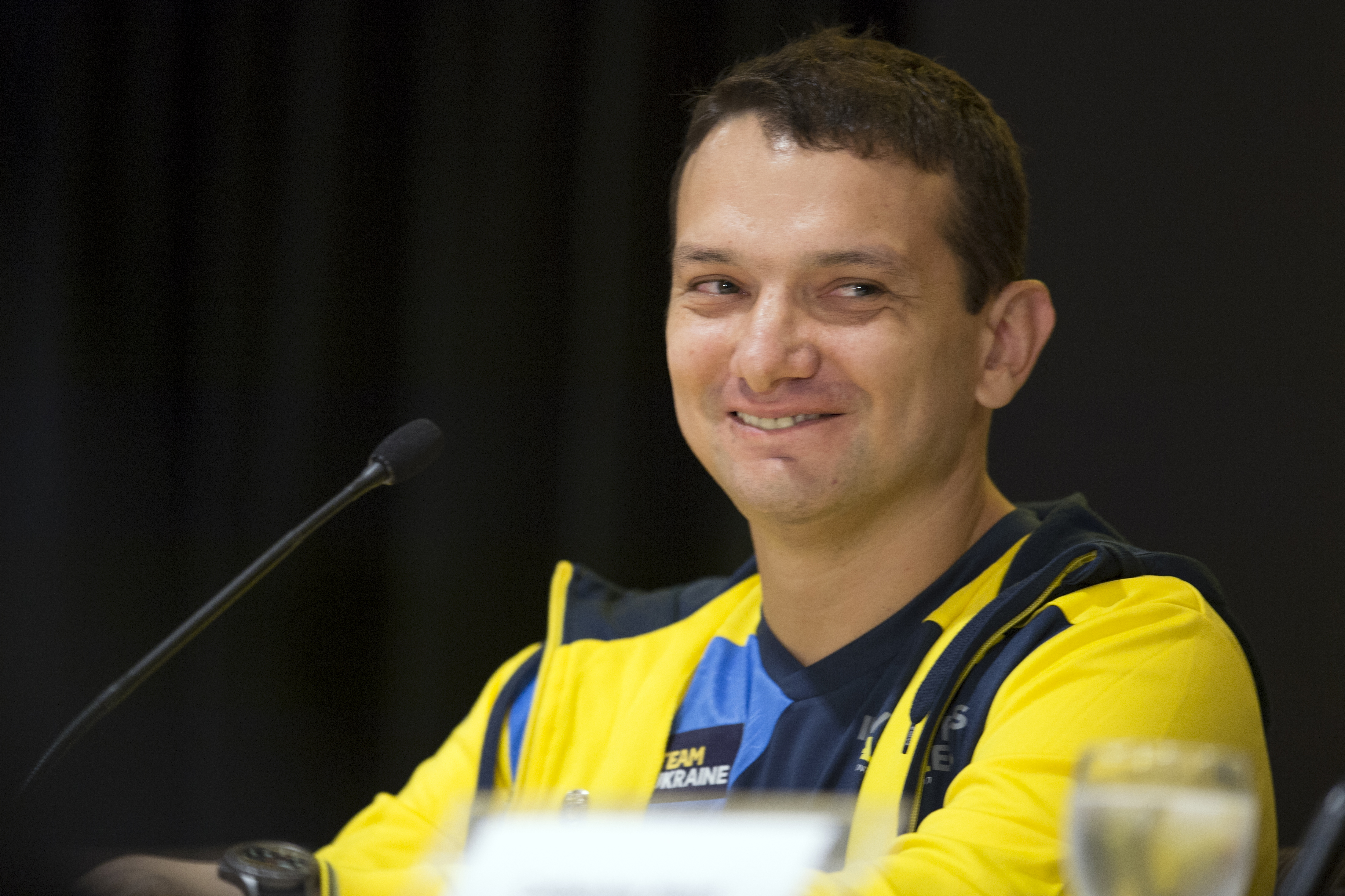 Vadym Svyrydenko of Team Ukraine speaks at the 2017 Invictus Games opening press conference in Toronto, Canada Sept. 23, 2017. (Department of Defense photo by EJ Hersom)..